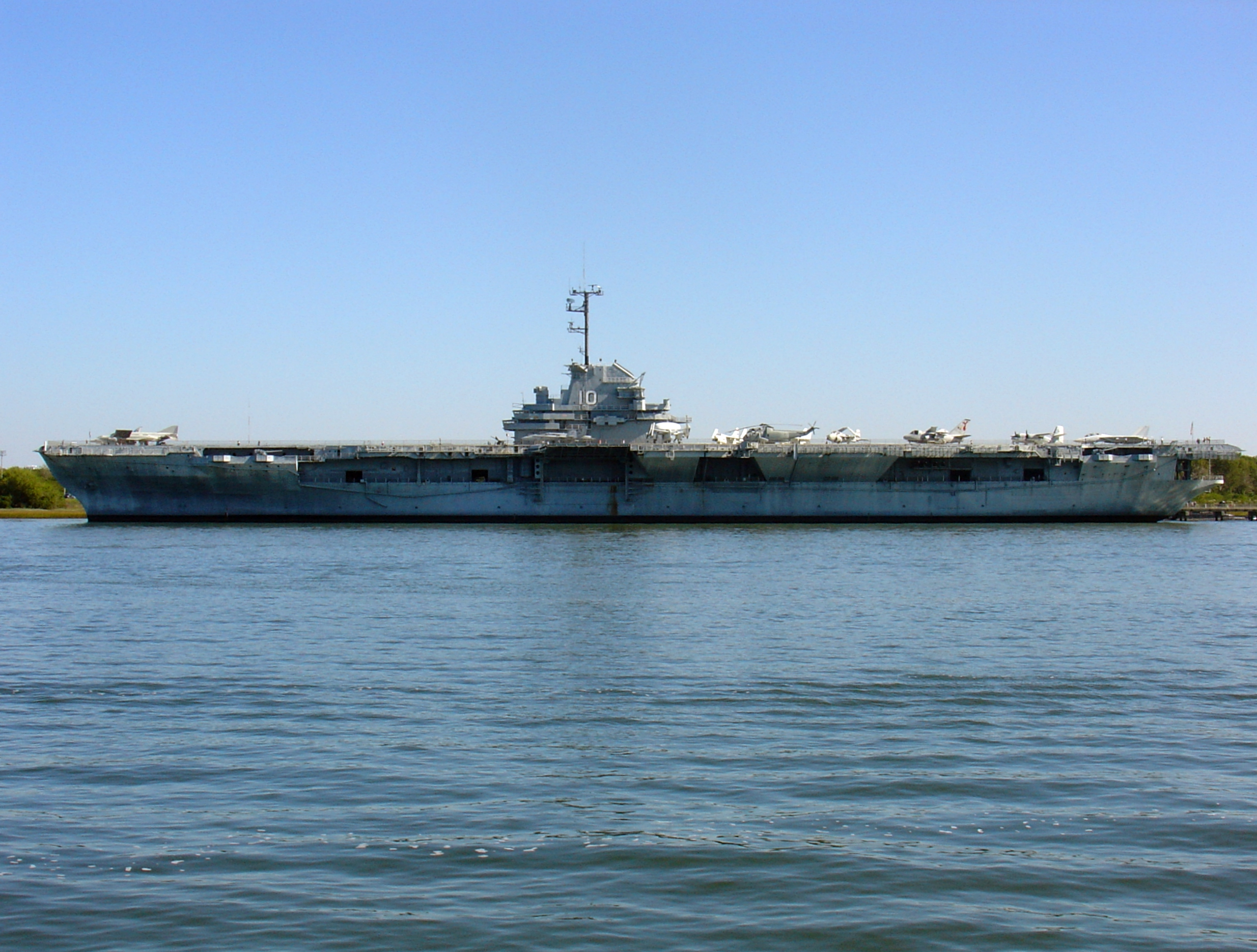 A picture of the USS Yorktown CV-10 taken on a ferry touring Charleston Harbor